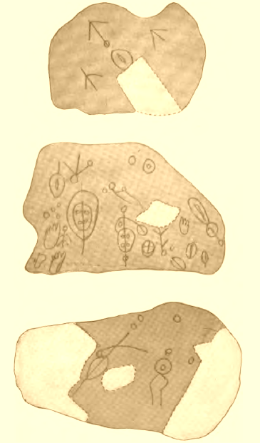 Track Rock in the Track Rock Gap Archaeological Area in the Chattahoochee National Forest in Georgia. These sketches are by James Mooney and the dashed lines indicate portions of the rock which have been removed by relic hunters.